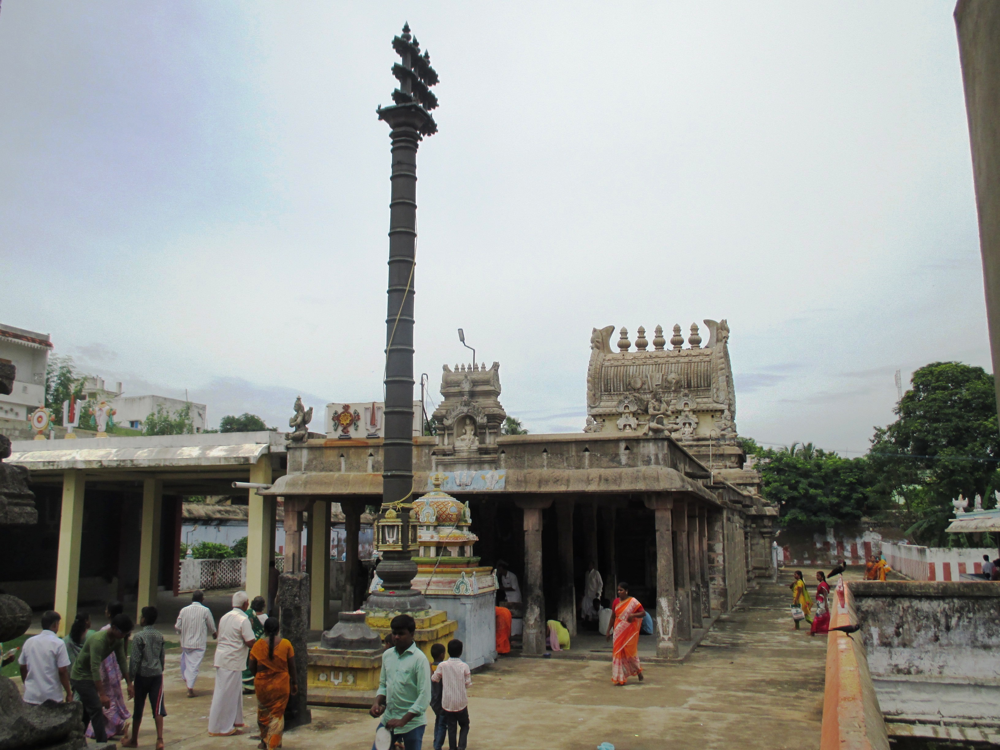 Pandavathoothartemple